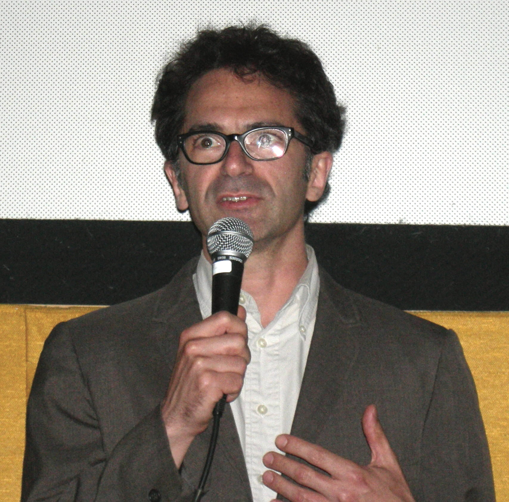 Michael Azerrad at the Neptune Theater during the 2007 Seattle International Film Festival, after a showing of the film Kurt Cobain: About a Son, which utilizes Azerrad's interviews with Cobain.